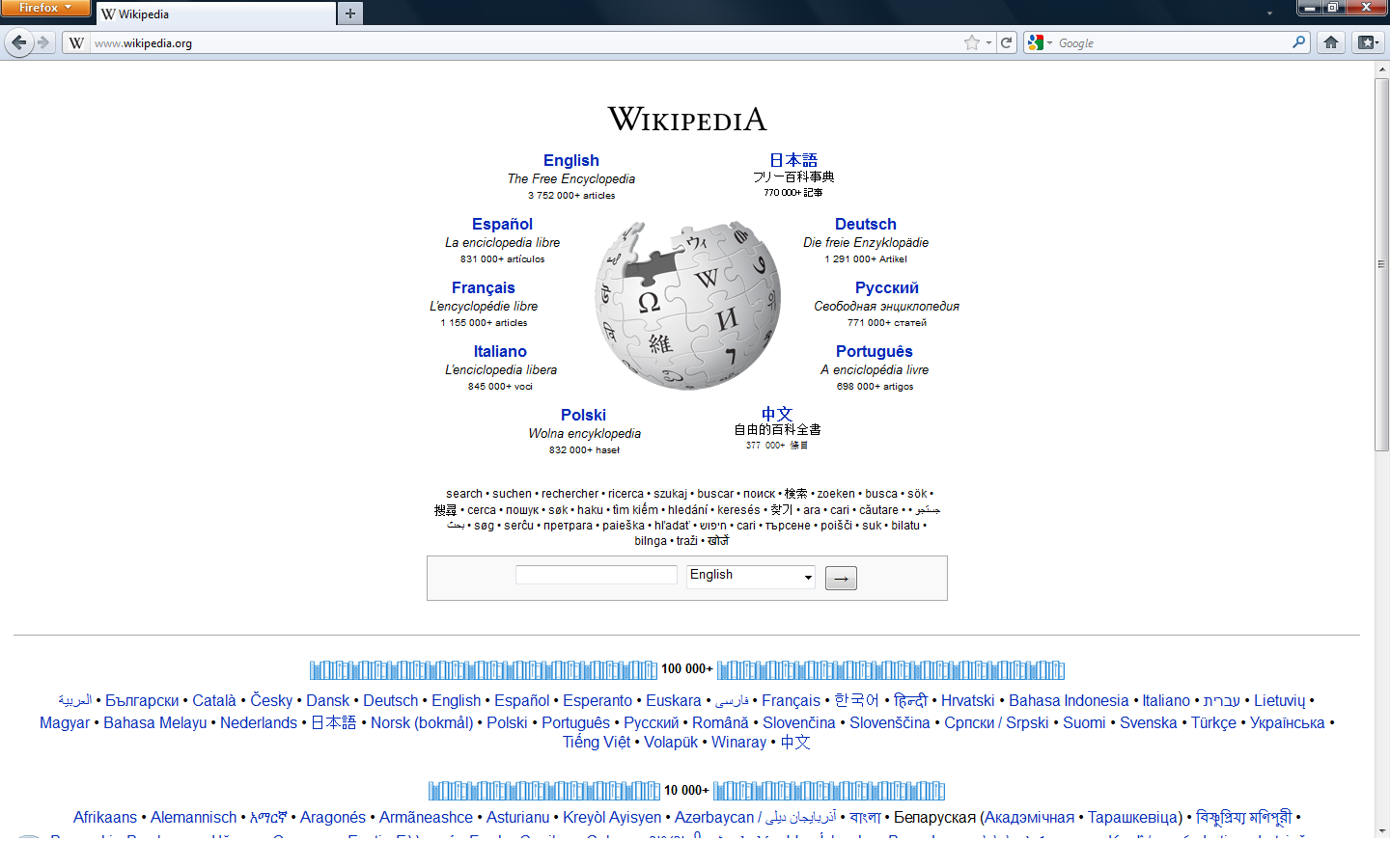 Firefox 7.0.1 on Windows Vista